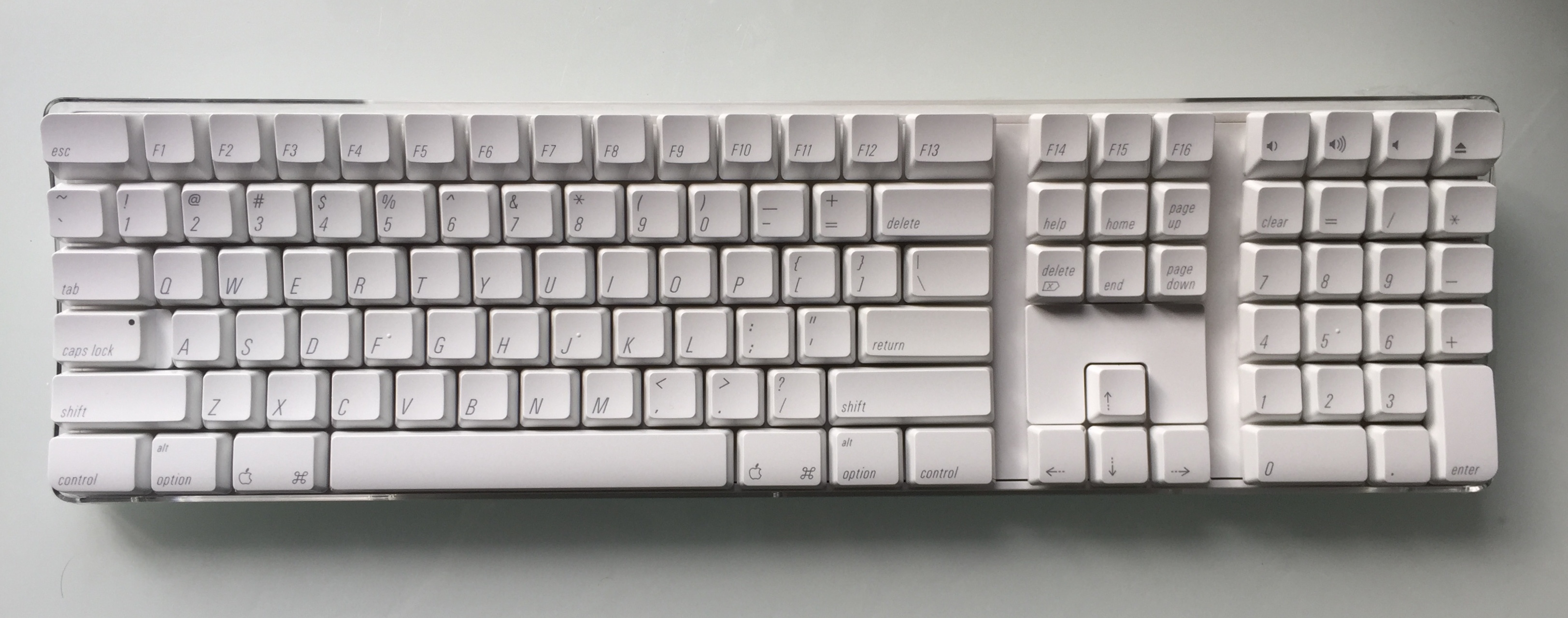 A1016 Apple Wireless Keyboard - just opened from a sealed box.